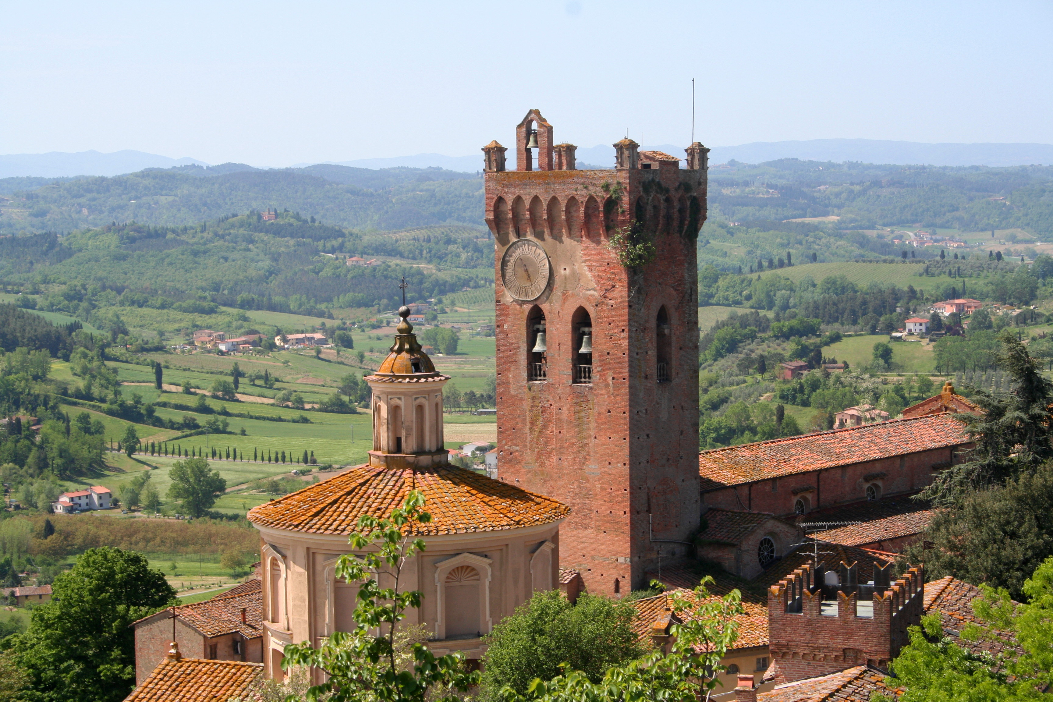 Campanile ("Torre di Matilde") of the Cathedral and cupola of the Church of Santissimo Crocifisso, San Miniato